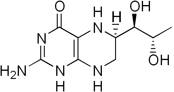 chemical structure of tetrahydrobiopterin